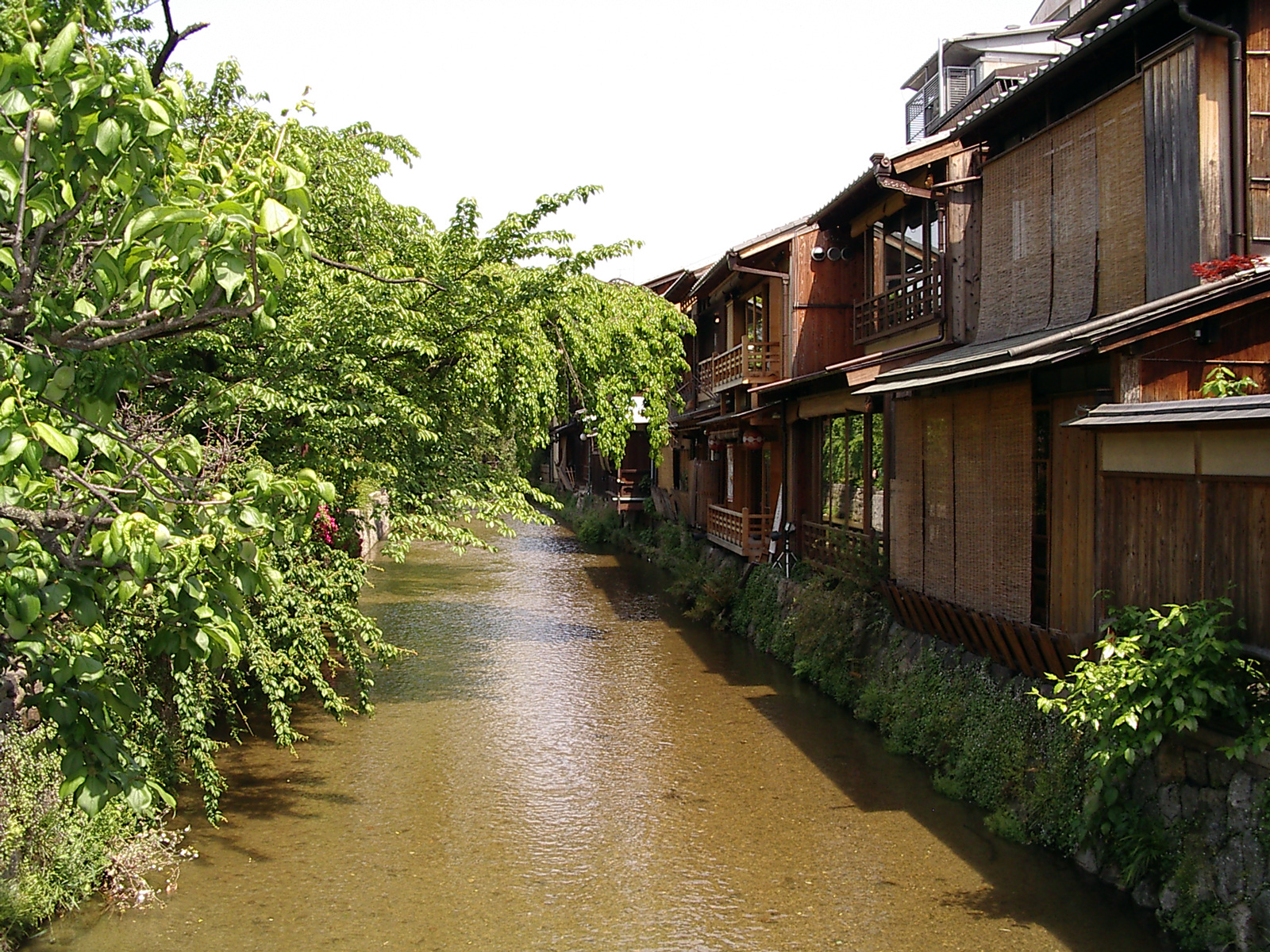 A riverside view in Gion, Kyoto, Japan. 京都・祇園白川沿いの景色